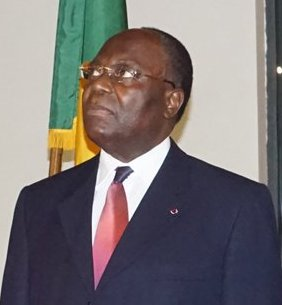 Prime Minister of Congo Clément Mouamba at the official celebration of the 240th anniversary of the independence of the United States of America.